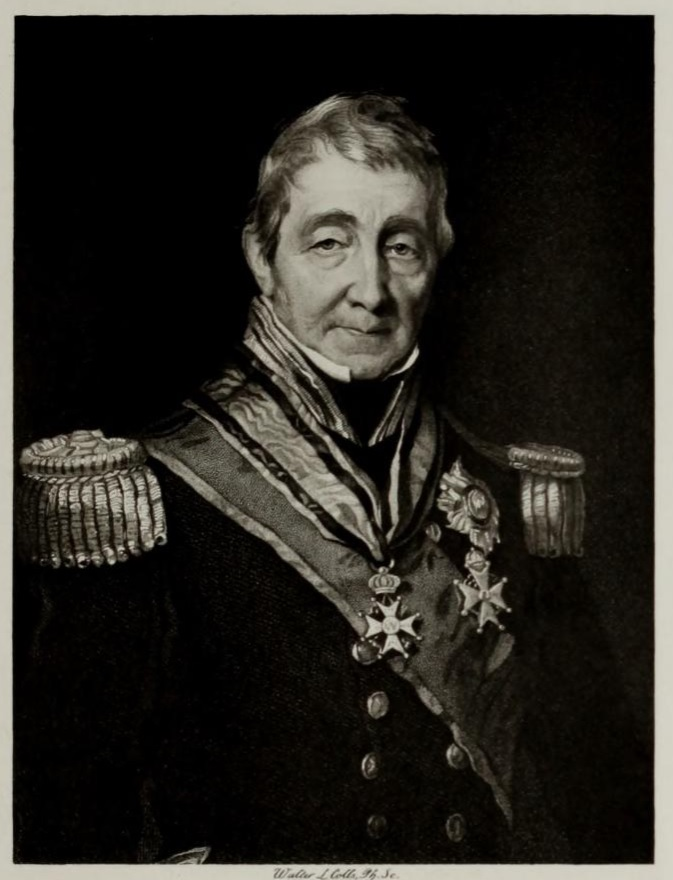 Admiral David Milne portrait from The Royal Navy: a history from the earliest times to the present, 1897